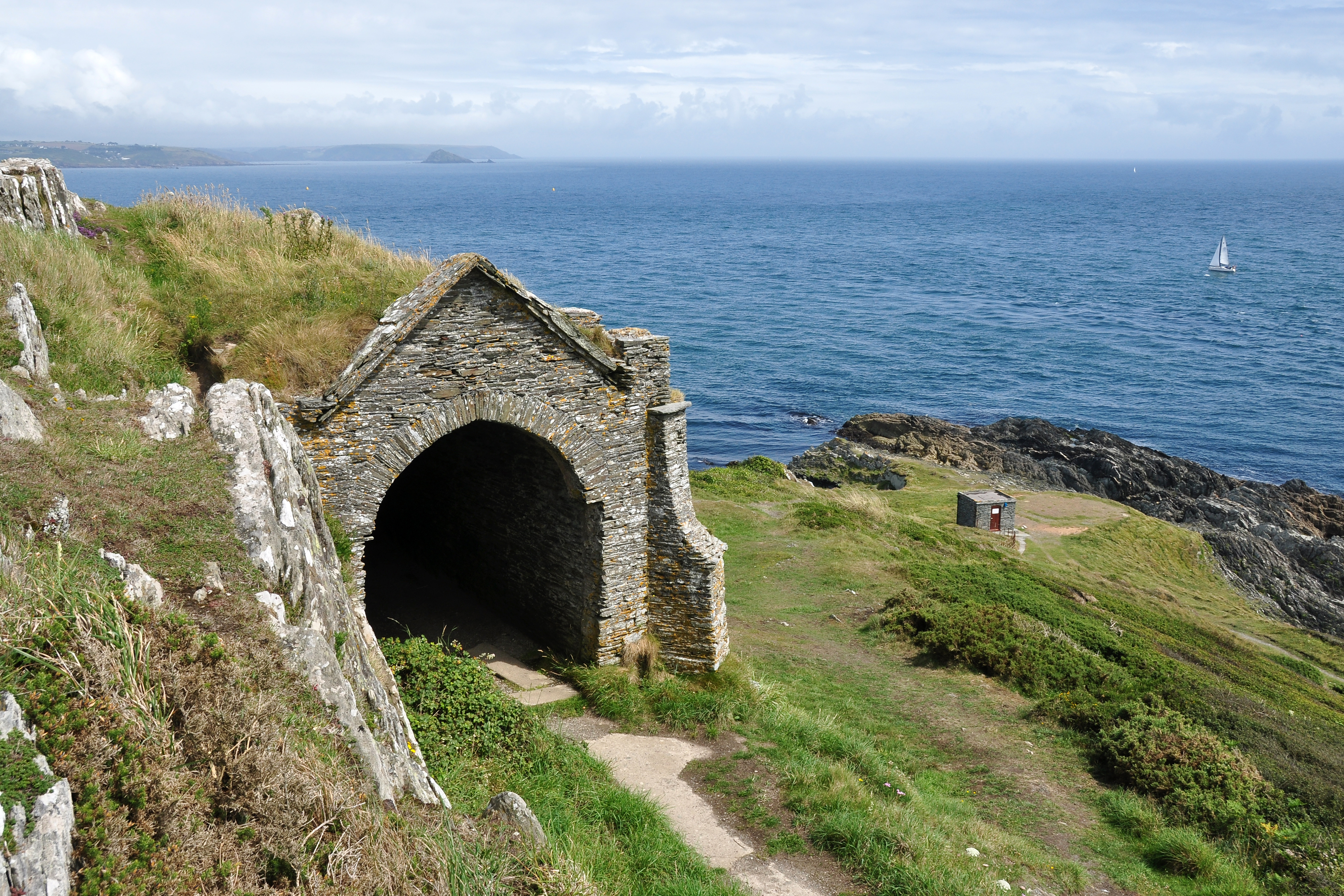 Queen Adelaide's Grotto on Penlee Point, at the western edge of Plymouth Sound. The grotto is one of the structures within Mount Edgecumbe Country Park